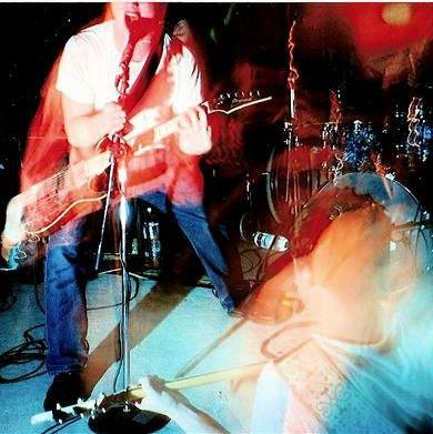 TOI in Wayne, MI.